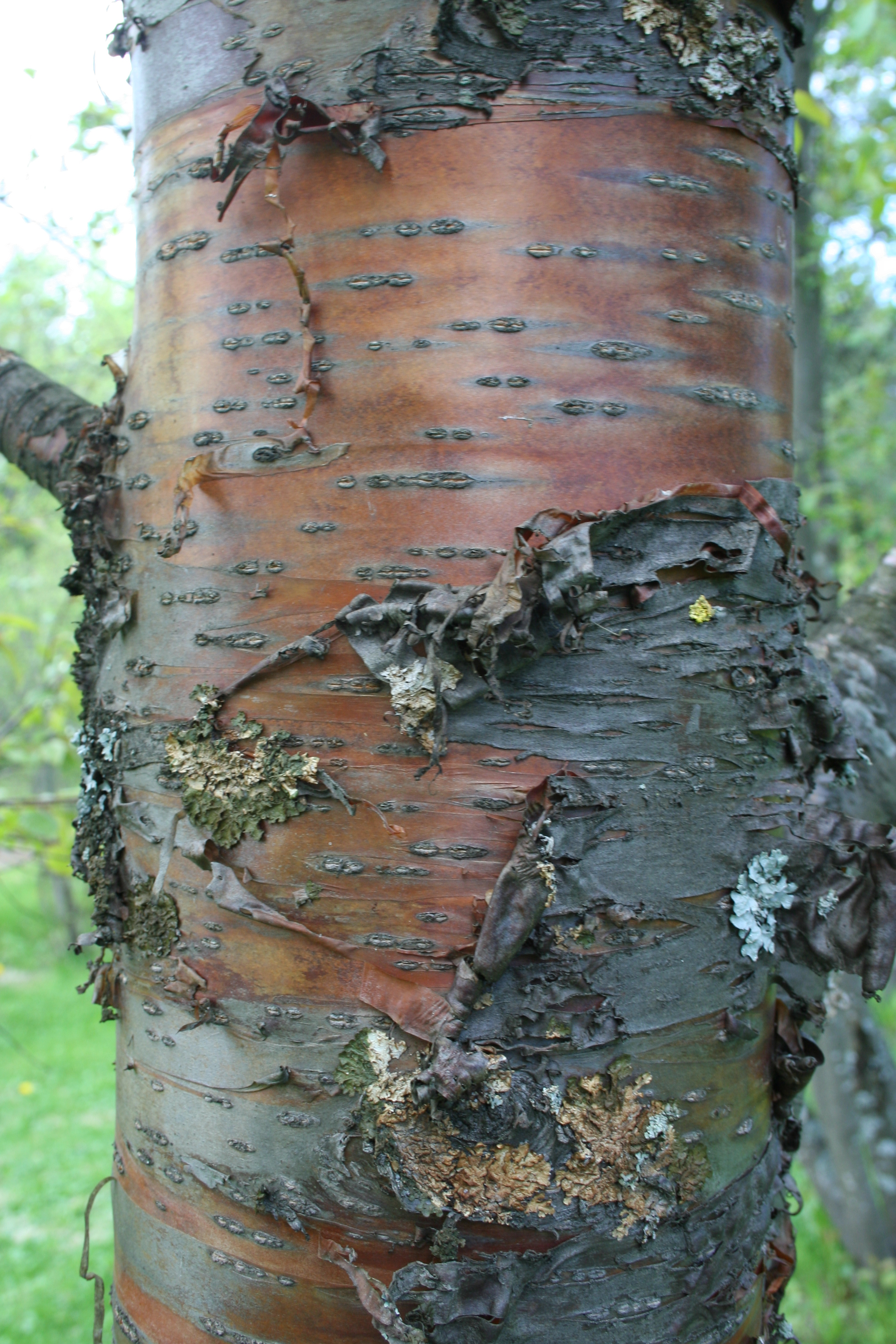 Bark of Prunus pensylvanica in Oulu University Botanical Gardens, Finland.